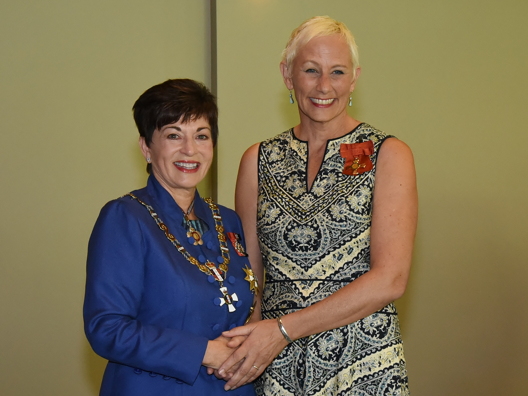 Leanne Pooley, ONZM, for services to documentary filmmaking, and Governor-General Dame Patsy Reddy (left)